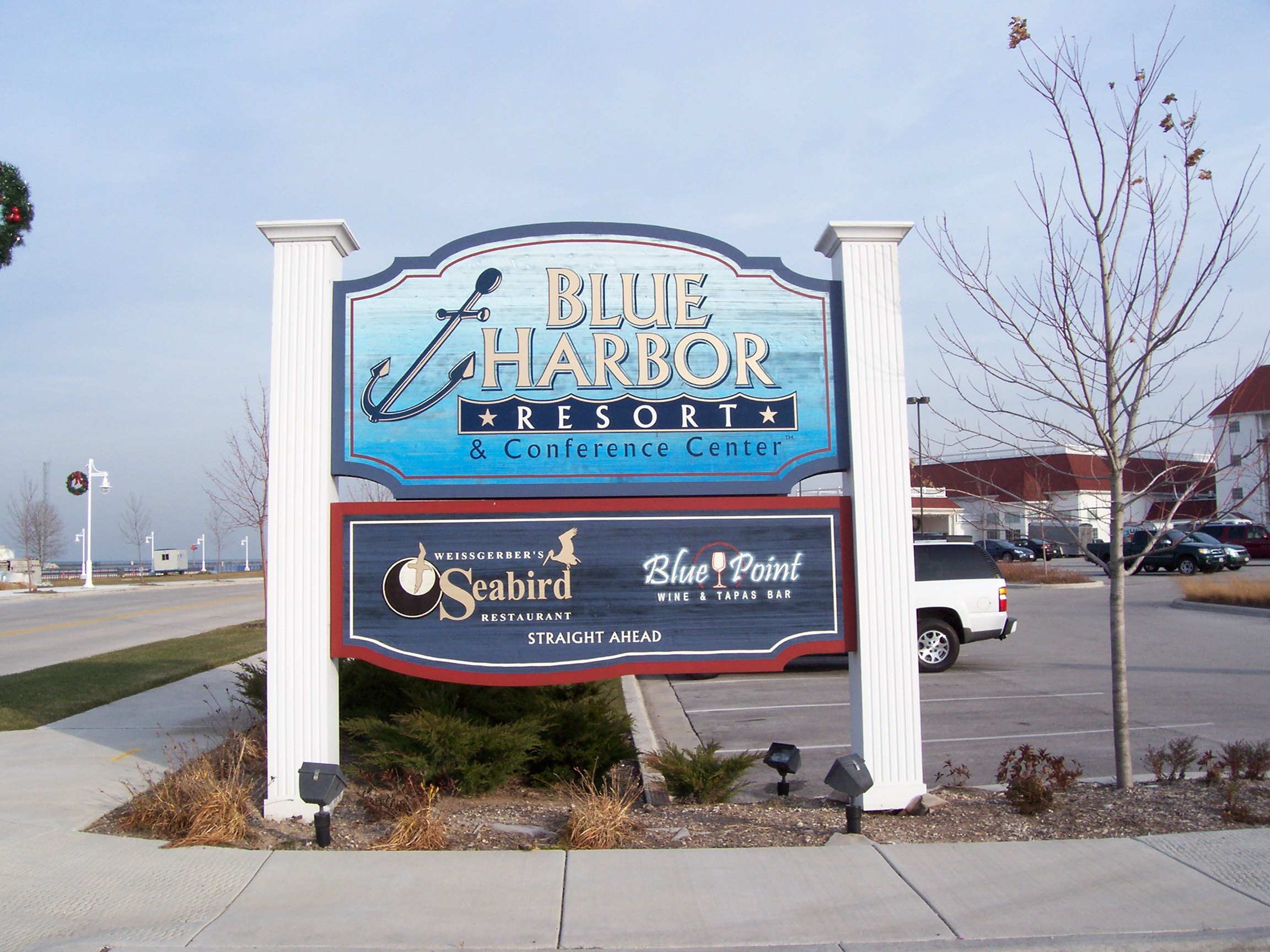 The sign for Blue Harbor resort in Sheboygan, Wisconsin, USA.